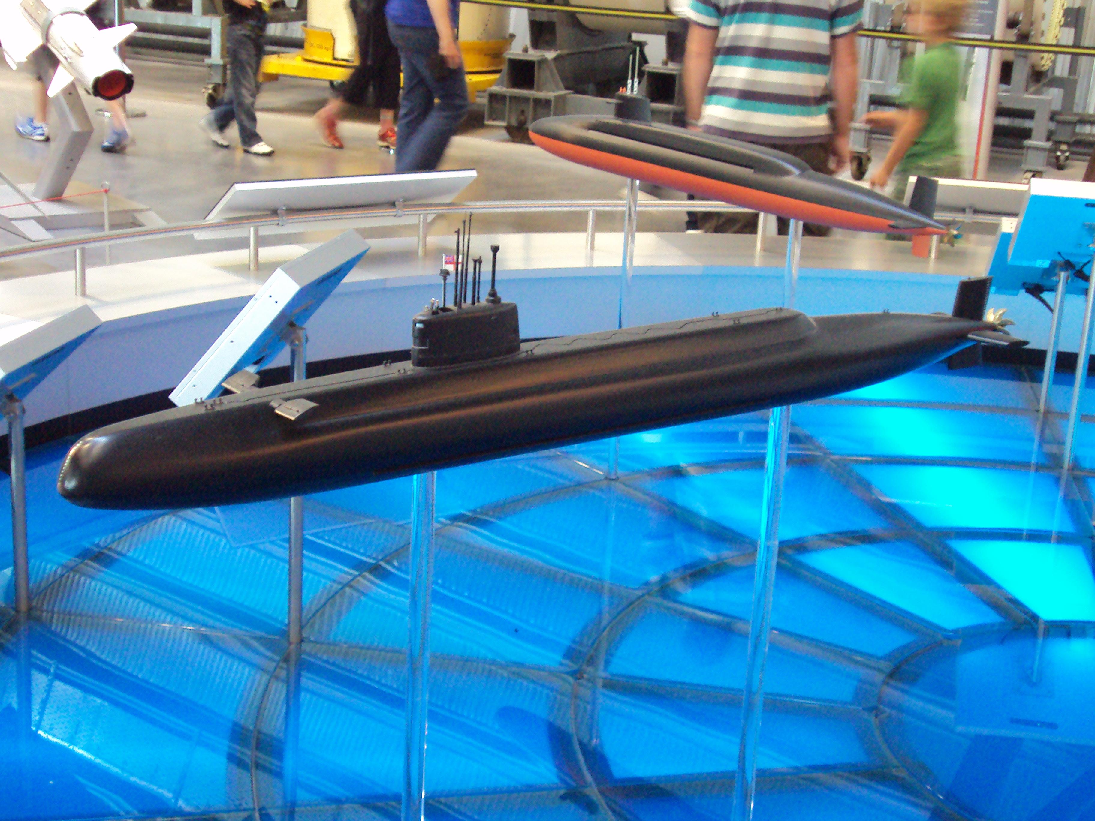 Models of military submarines. This is british Resolution class SSBN. Photo taken at the RAF Museum Cosford, Shropshire, England.